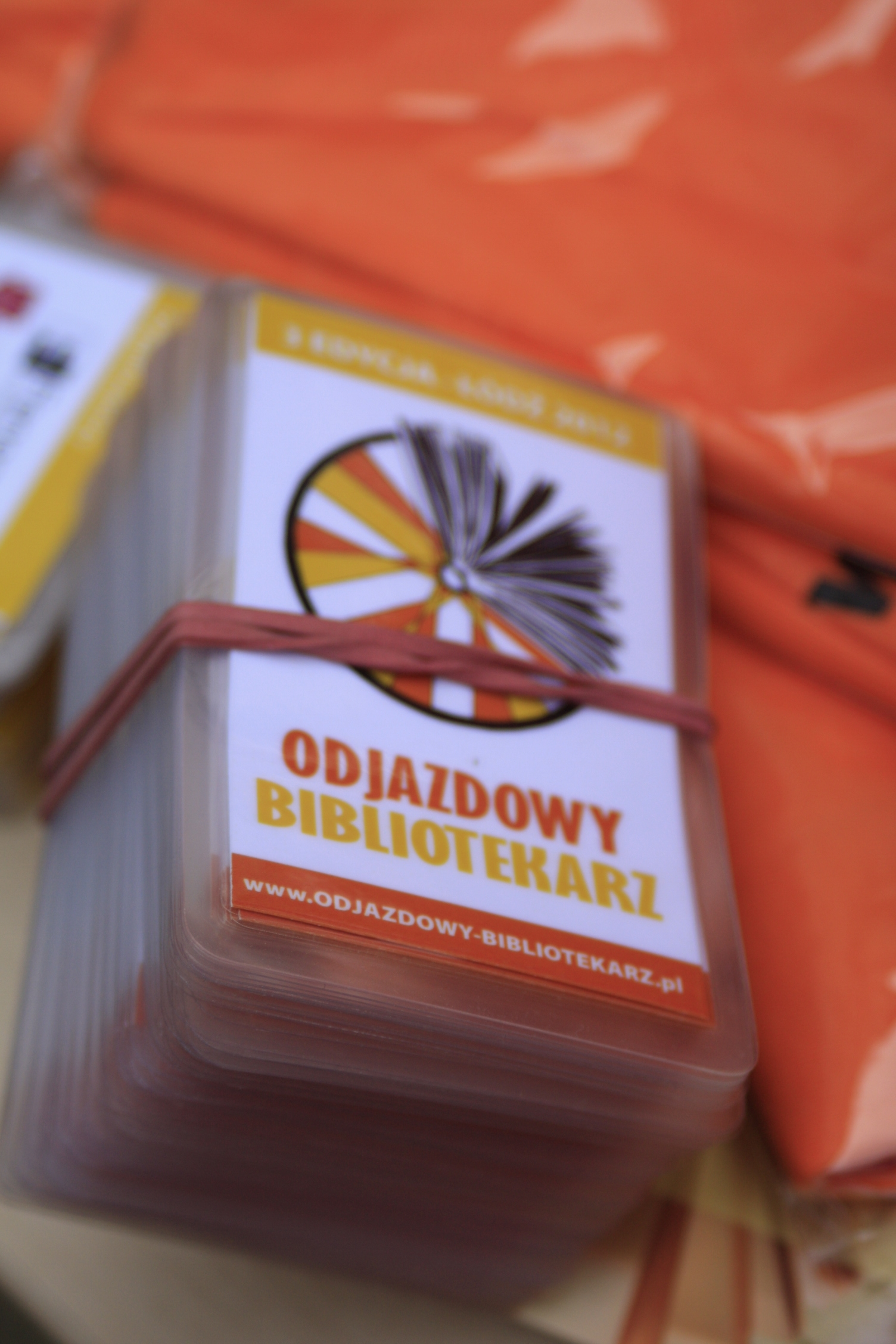 Riding Librarian 2012 in Łódź - spoke cards